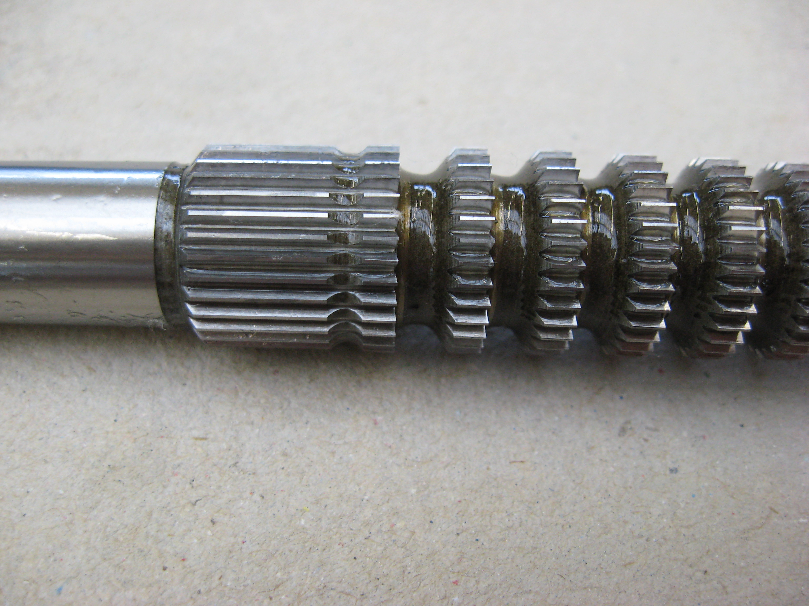 The last finishing teeth of a broach.